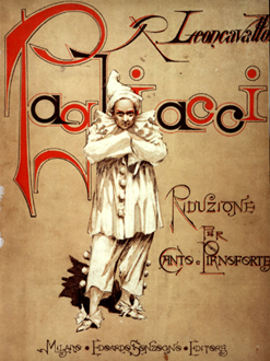 Cover of the first edition of Pagliacci published by E. Sonzogno, Milan, 1892